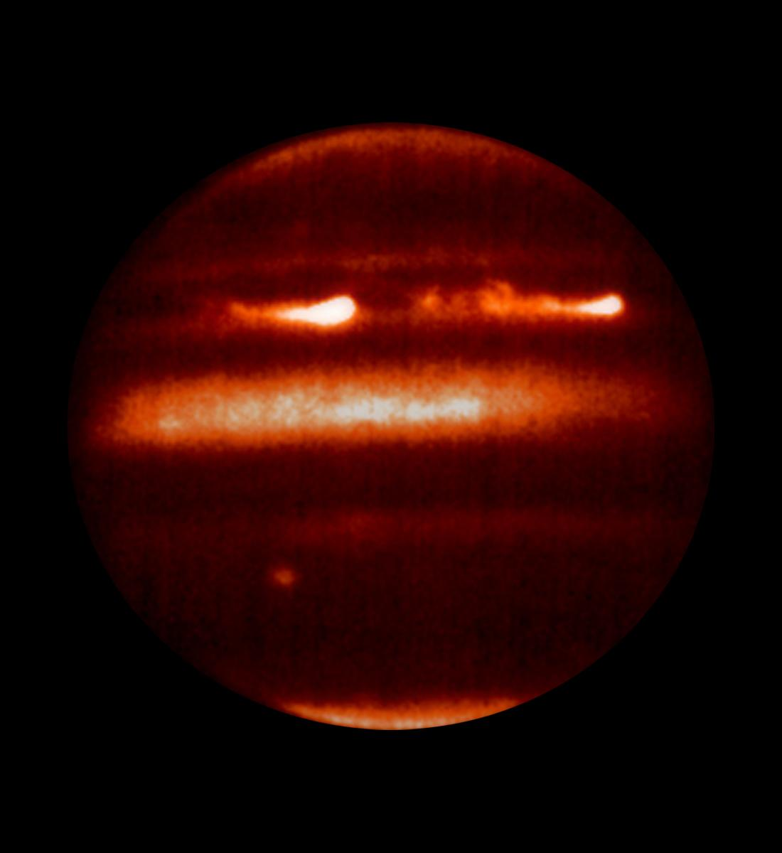 Detailed analysis of two continent-sized storms that erupted in Jupiter's atmosphere in March 2007 shows that Jupiter's internal heat plays a significant role in generating atmospheric disturbances. Understanding these outbreaks could be the key to unlock the mysteries buried in the deep Jovian atmosphere, say astronomers. This infrared image shows two bright plume eruptions obtained by the NASA Infrared Telescope Facility on April 5, 2007. Understanding these phenomena is important for Earth's meteorology where storms are present everywhere and jet streams dominate the atmospheric circulation. Jupiter is a natural laboratory where atmospheric scientists study the nature and interplay of the intense jets and severe atmospheric phenomena. According to the analysis, the bright plumes were storm systems triggered in Jupiter's deep water clouds that moved upward in the atmosphere vigorously and injected a fresh mixture of ammonia ice and water about 20 miles (30 kilometers) above the visible clouds. The storms moved in the peak of a jet stream in Jupiter's atmosphere at 375 miles per hour (600 kilometers per hour). Models of the disturbance indicate that the jet stream extends deep in the buried atmosphere of Jupiter, more than 60 miles (approximately100 kilometers) below the cloud tops where most sunlight is absorbed.